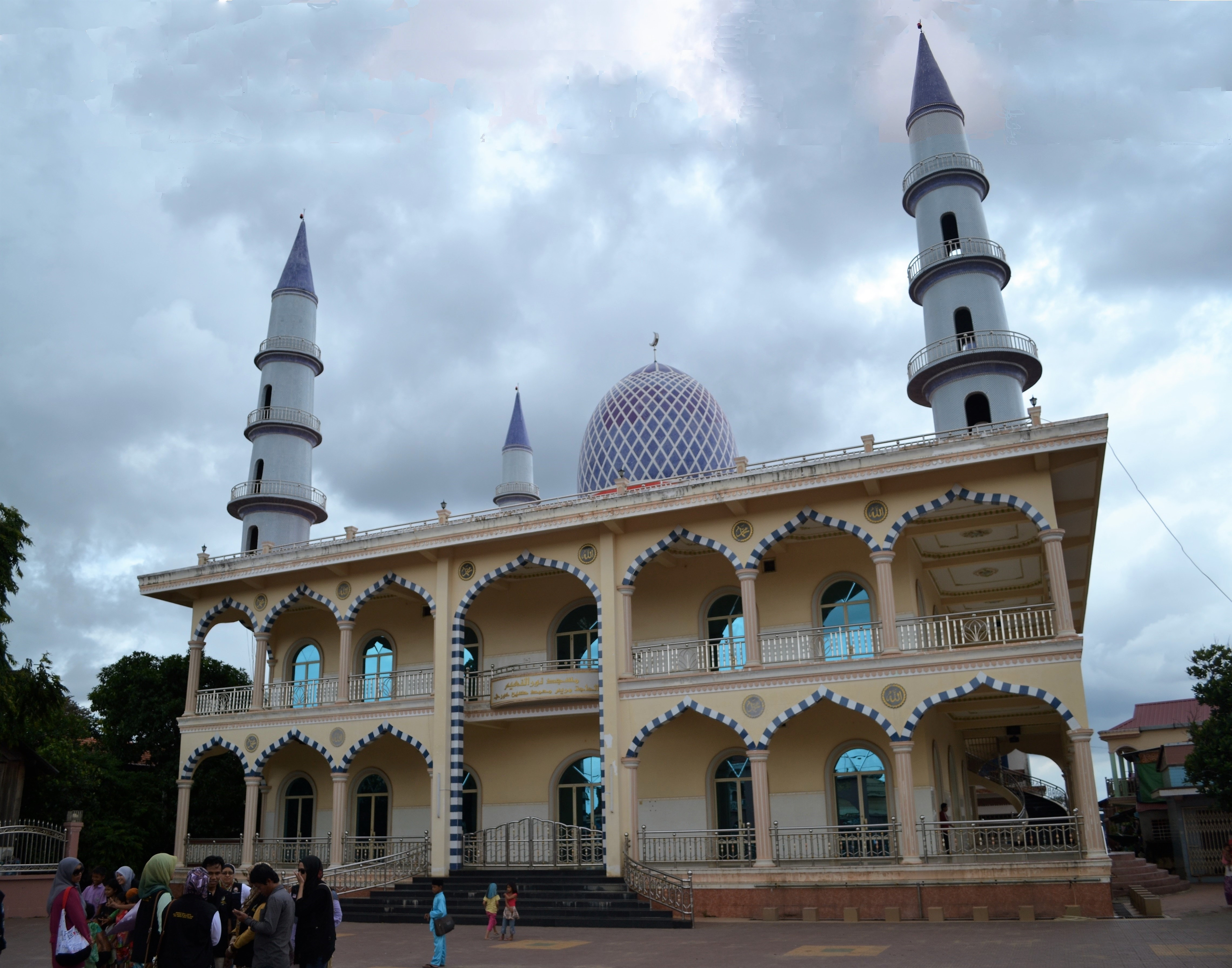 Mosque An-Nur an-Na'im